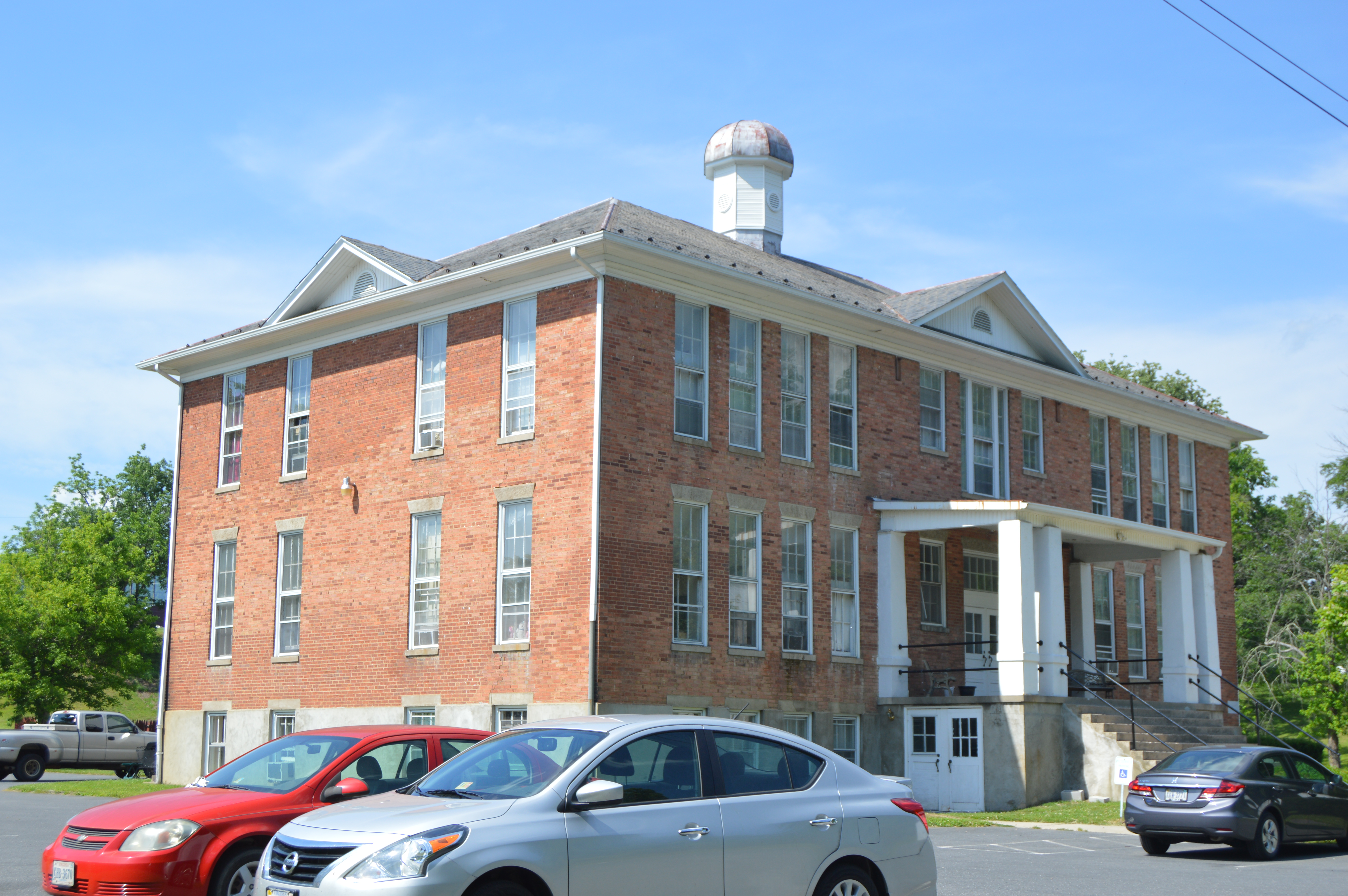 Front and southwestern side of the former Craigsville School (now apartments), located on Railroad Avenue in Craigsville, Virginia, United States. Built in 1917, it is listed on the National Register of Historic Places.